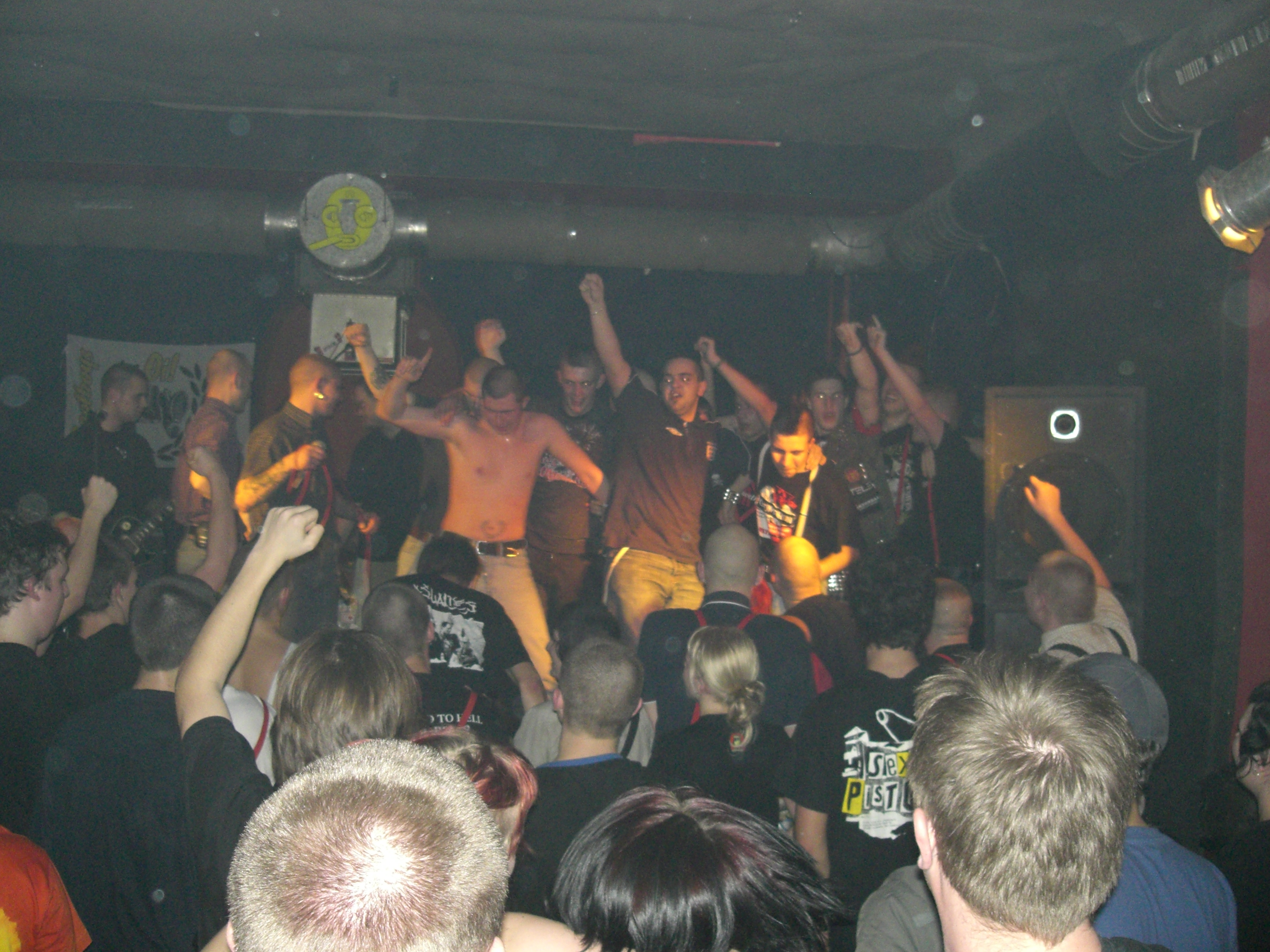 Music groupe Pilsner Oiquell by the concert in České Budějovice, Czech Republic